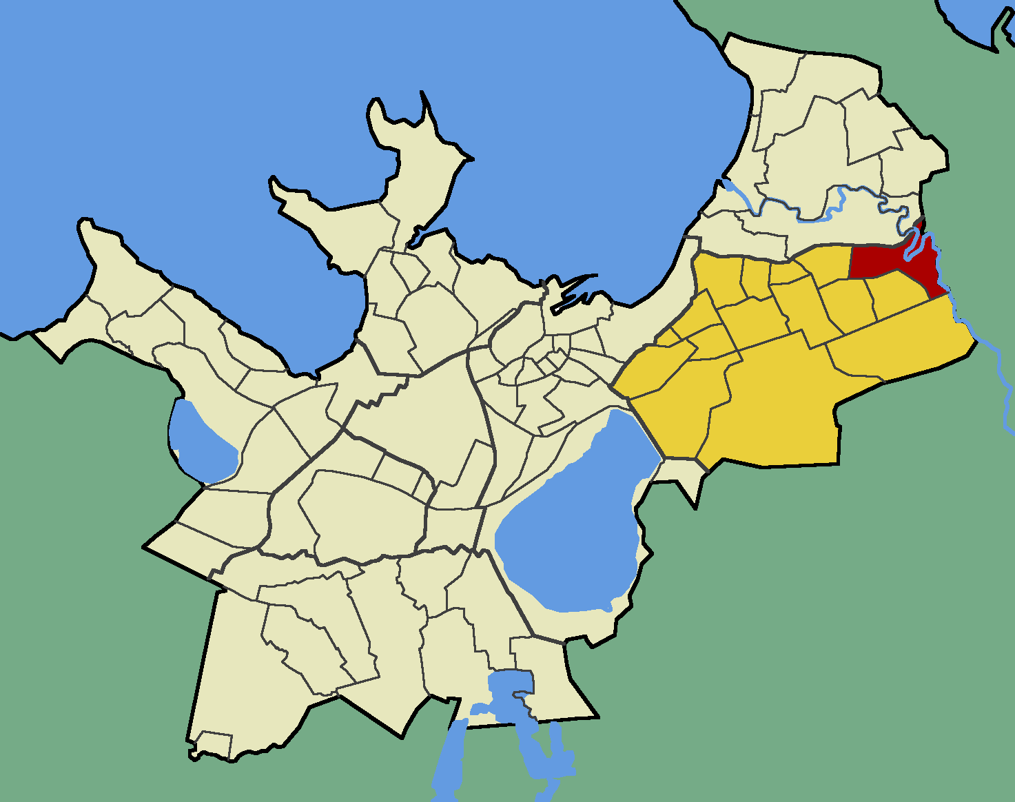 Map of Tallinn (Estonia) with borders of the quarters, Lasnamäe district and Priisle quarter emphasised